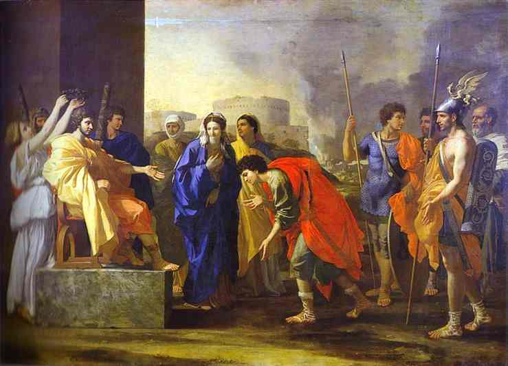 Scipio's Noble Deed (1640). Painting from the Pushkin Museum of Fine Arts, Moscow.